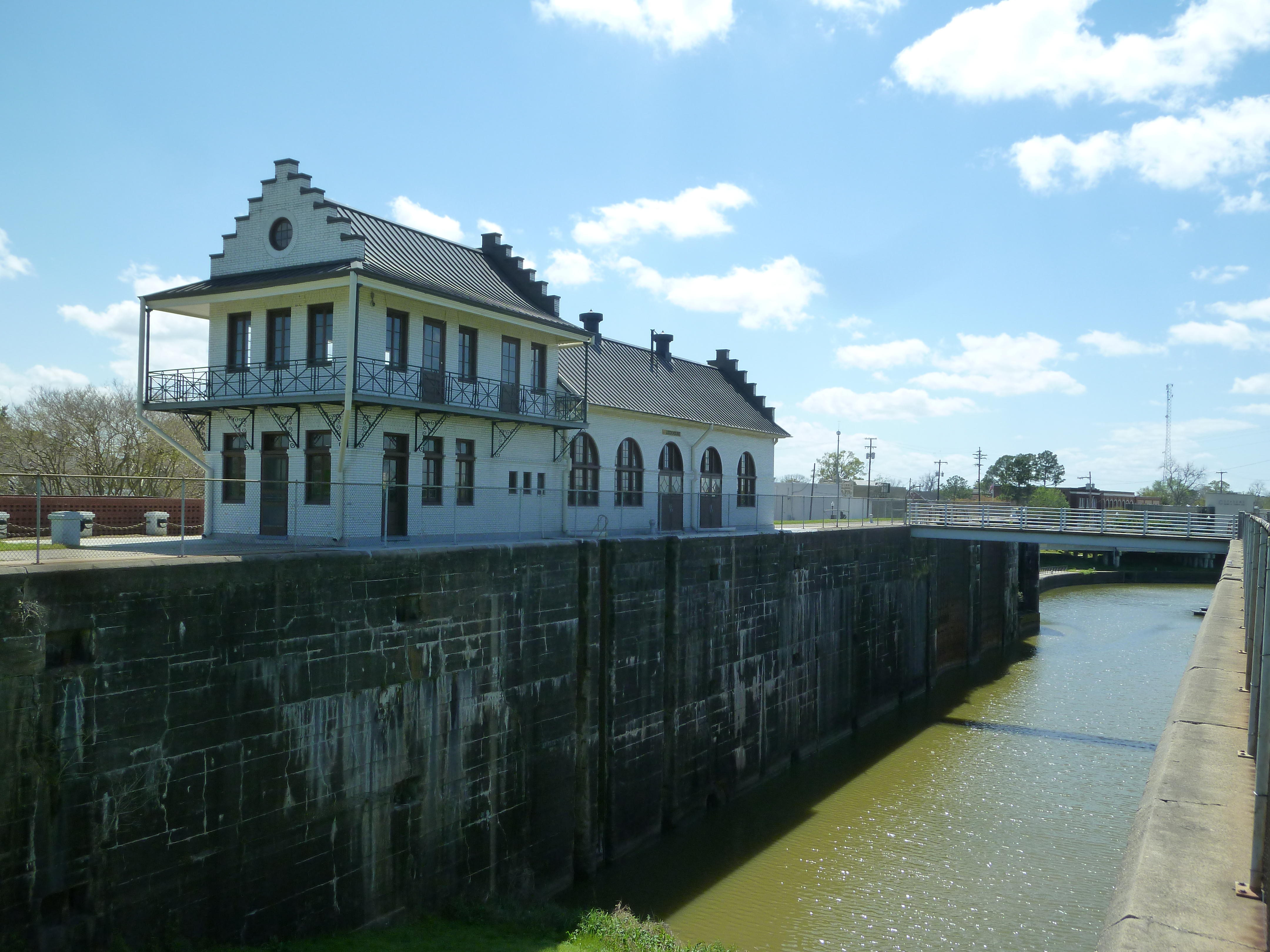 The Plaquemine lock connected the Mississippi River to Bayou Plaquemine. The lock was designed for differences in water level as high as fifty feet from the river at flood stage to the bayou.